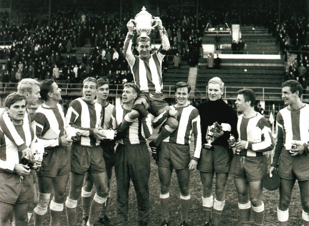 1966 Finnish Cup champions HJK Helsinki